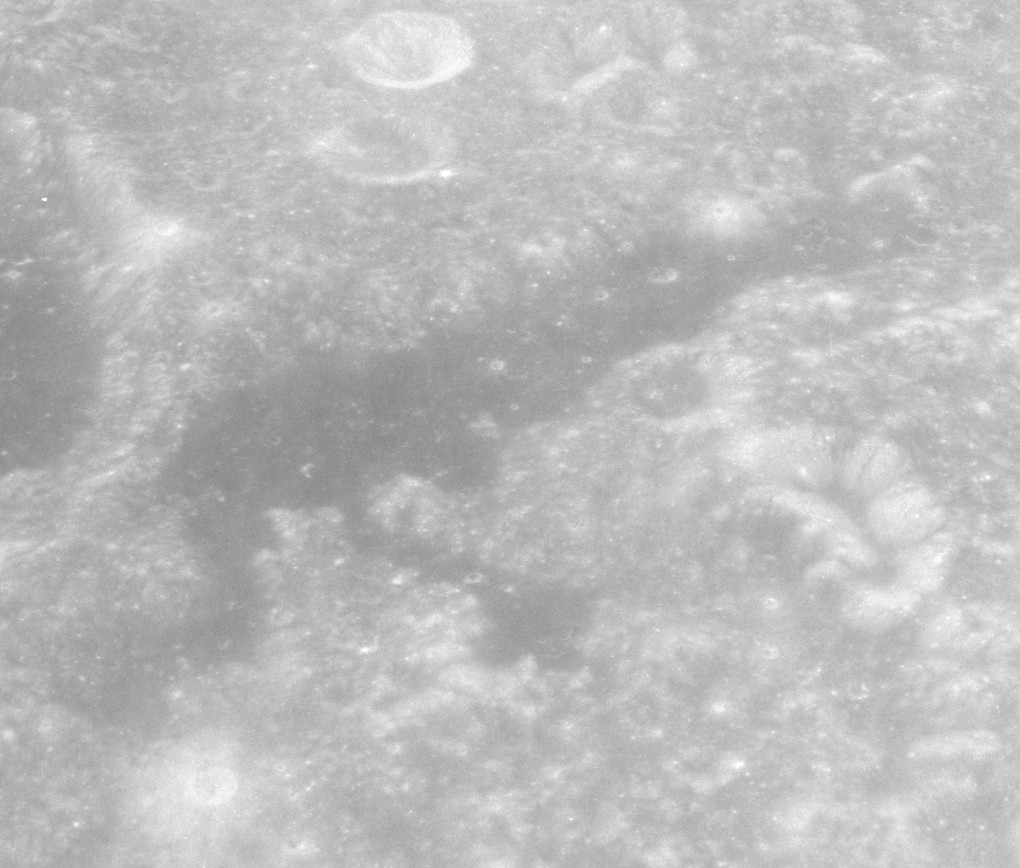 Lacus Perseverantiae on the Moon.